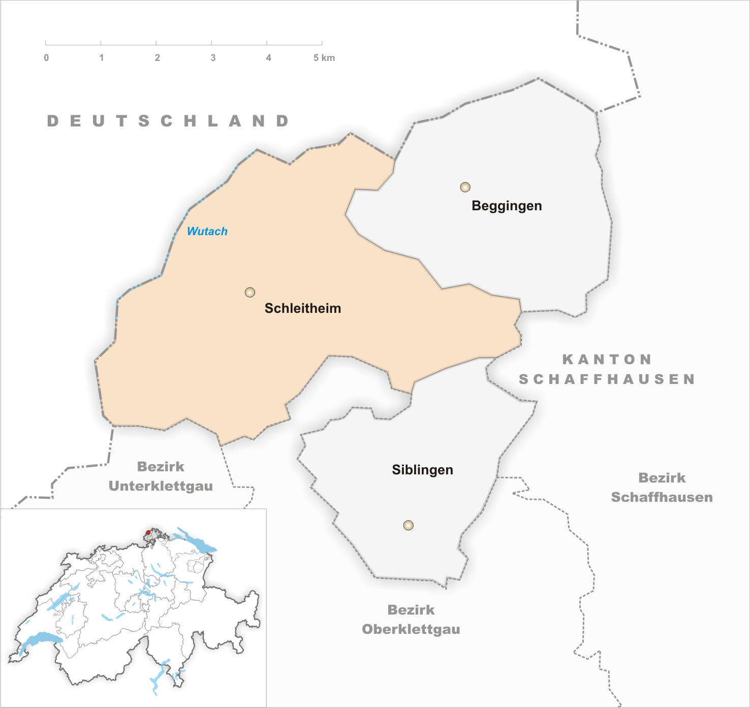 Municipality Schleitheim